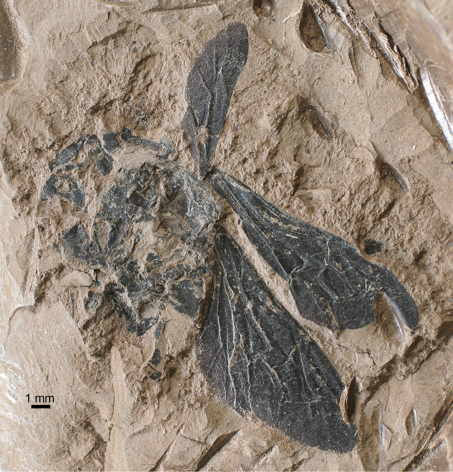 Figure 1 Photograph of holotype of Bombus (Cullumanobombus) trophonius, sp. n., from the Early Miocene of Bílina Mine in northern Bohemia, Czech Republic.